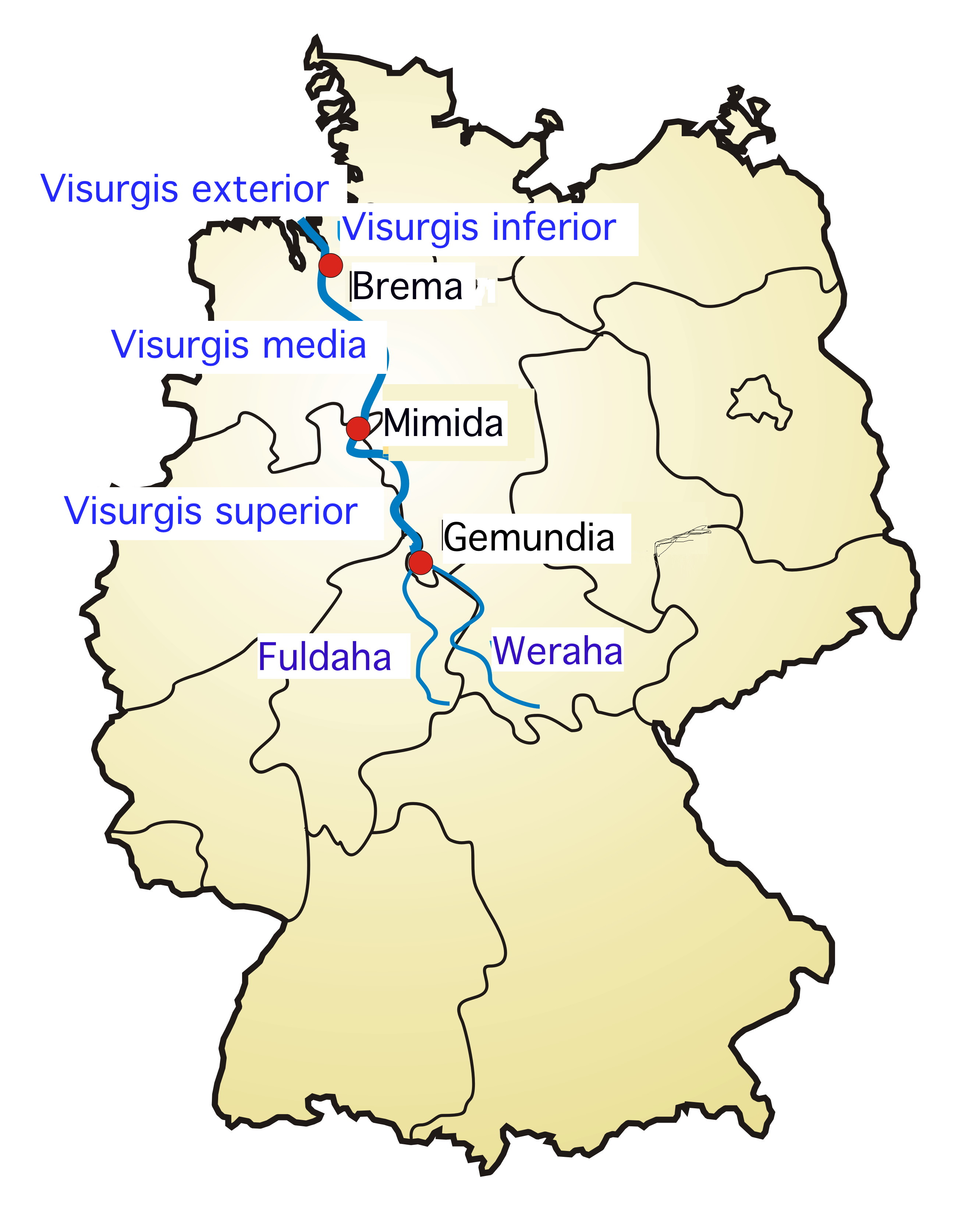 Map of Weser river with Latin names